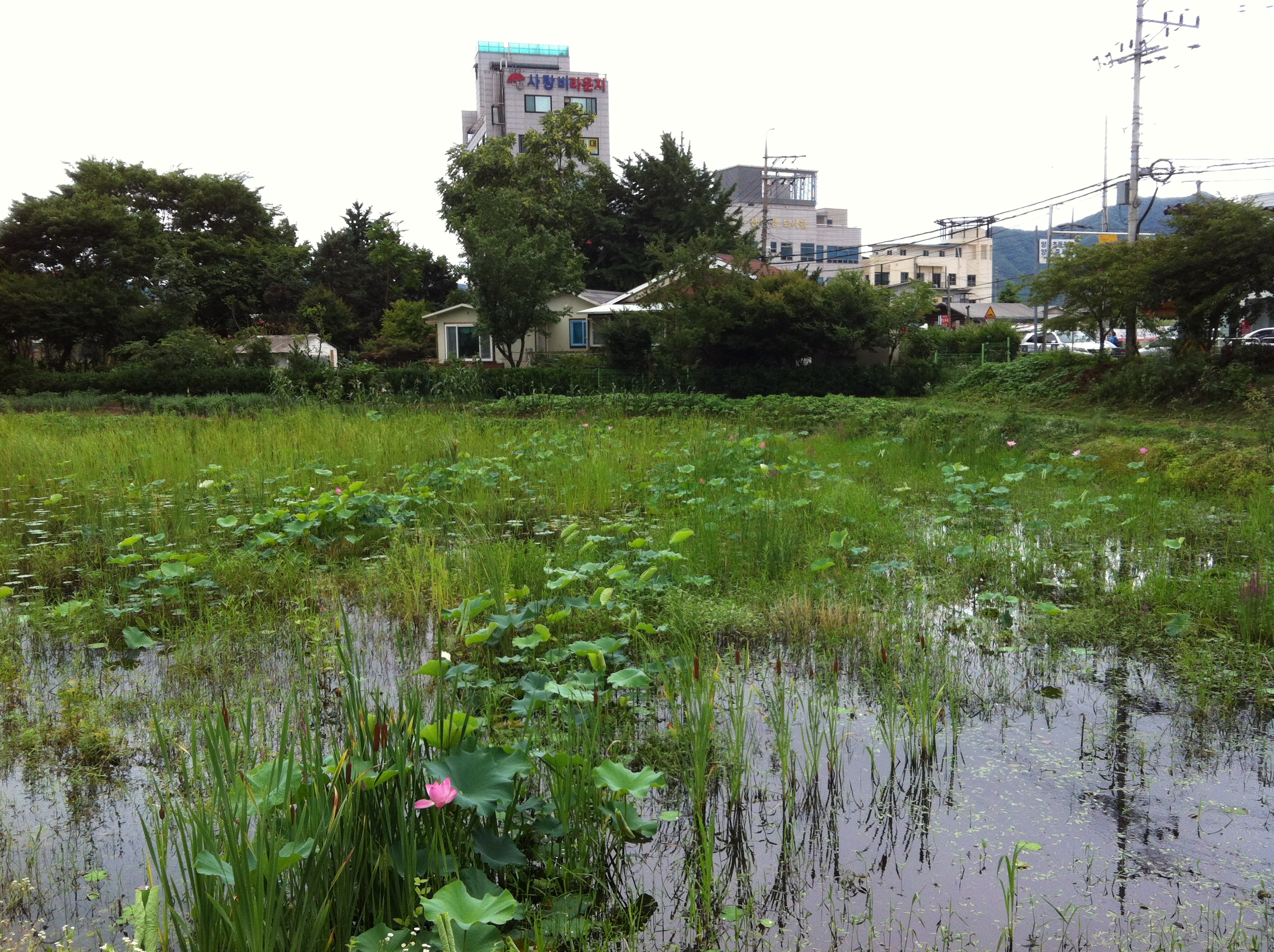 Lotus planted with other hydrophytes(aqua plants) in a pond in Yangpyeong country Gyeong-gi province Republic of Korea